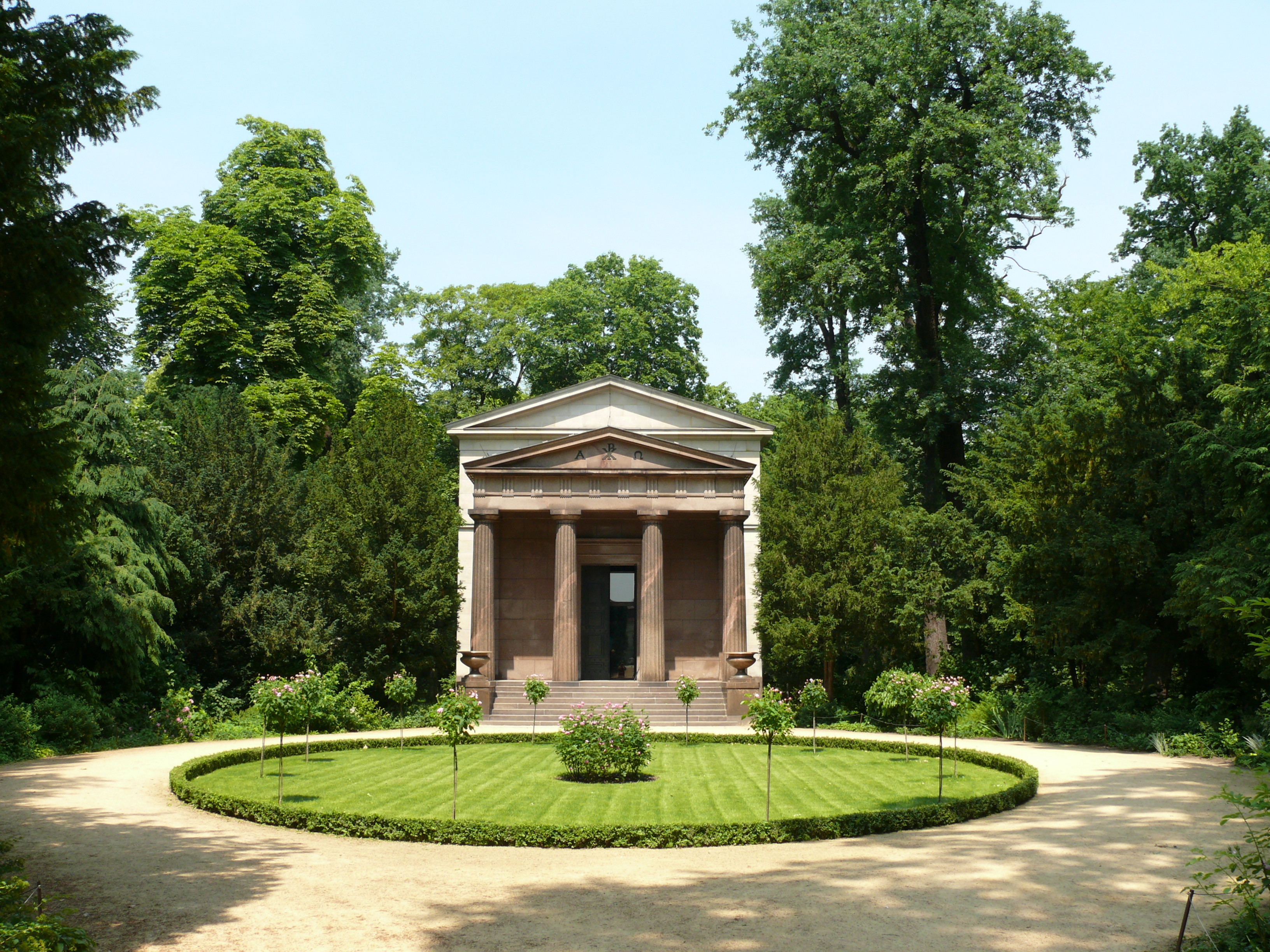 Berlin-Charlottenburg Mausoleum